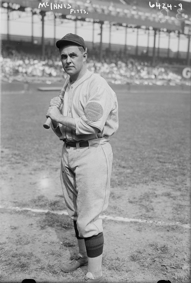 Major League Baseball player "Stuffy" McInnis of the Pittsburgh Pirates.